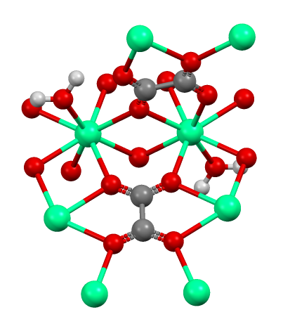 Portion of Ca(oxalate)(H2O) lattice